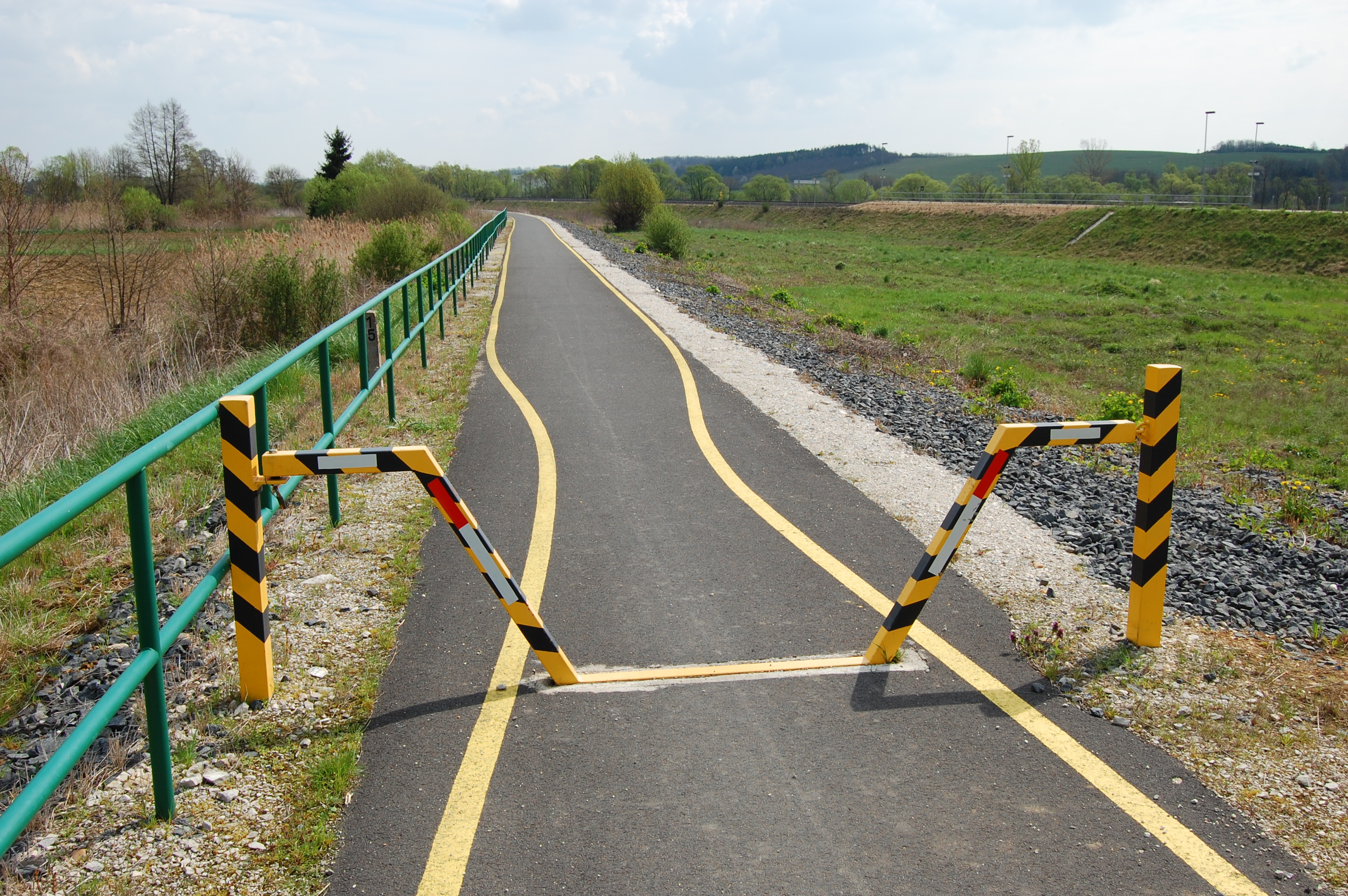 The Zala-Valley Bikeway near Zalalövő in Hungary